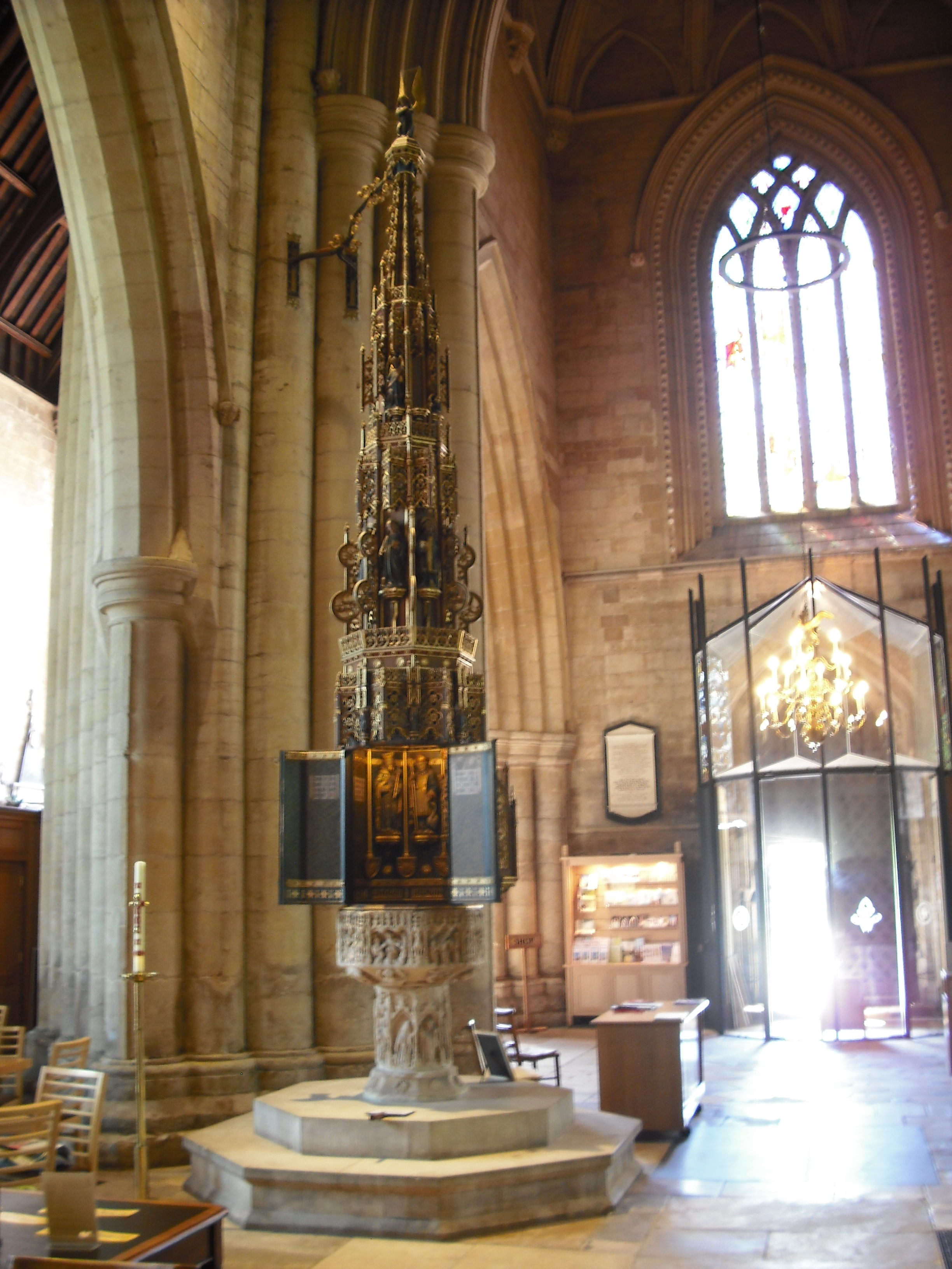 St Wulfram's, Grantham - font